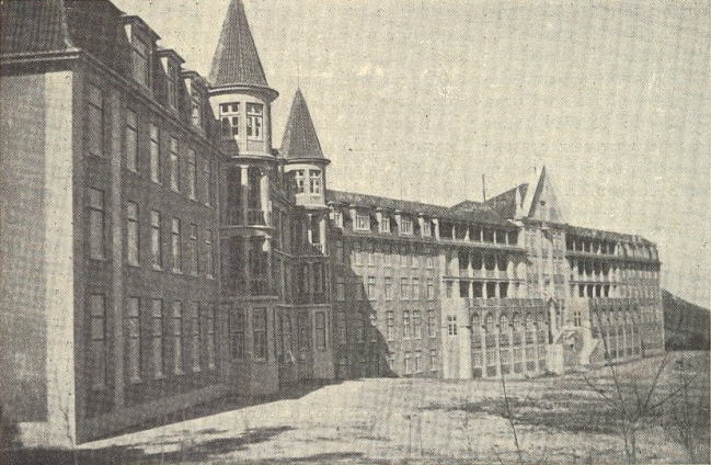 Building of the Sanatório das Penhas da Saúde (Penhas da Saúde Sanatorium), near the city of Covilhã, in Portugal. This image was published in the Gazeta dos Caminhos de Ferro magazine No. 1398, of 16th March 1946, and scanned by the Hemeroteca Municipal de Lisboa.